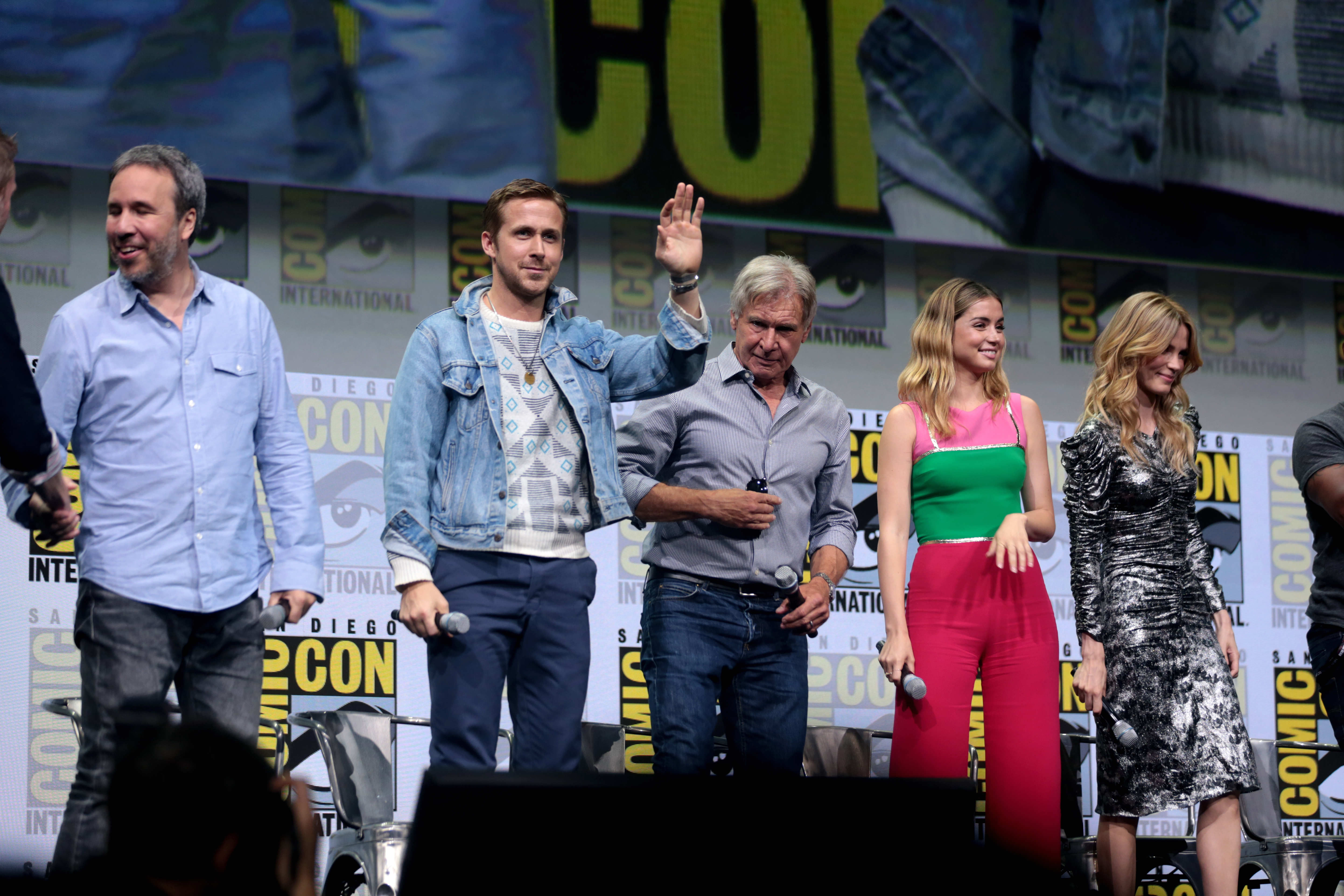 Denis Villeneuve, Ryan Gosling, Harrison Ford, Ana de Armas and Sylvia Hoeks speaking at the 2017 San Diego Comic Con International, for "Blade Runner 2049", at the San Diego Convention Center in San Diego, California.